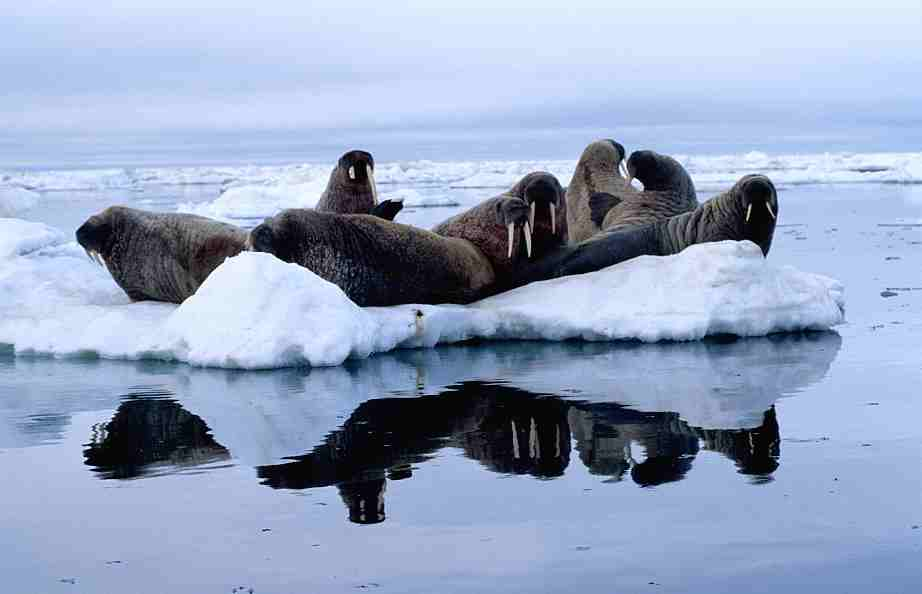 Atlantic walrus herd (Odobenus rosmarus rosmarus), on ice flow in Foxe Basin (Nunavut, Canada)